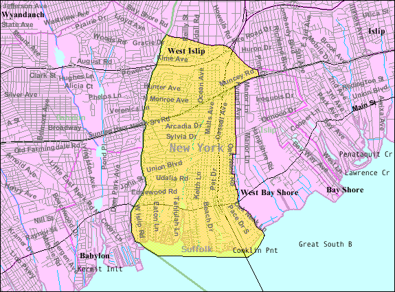 West Islip map from U.S. Census